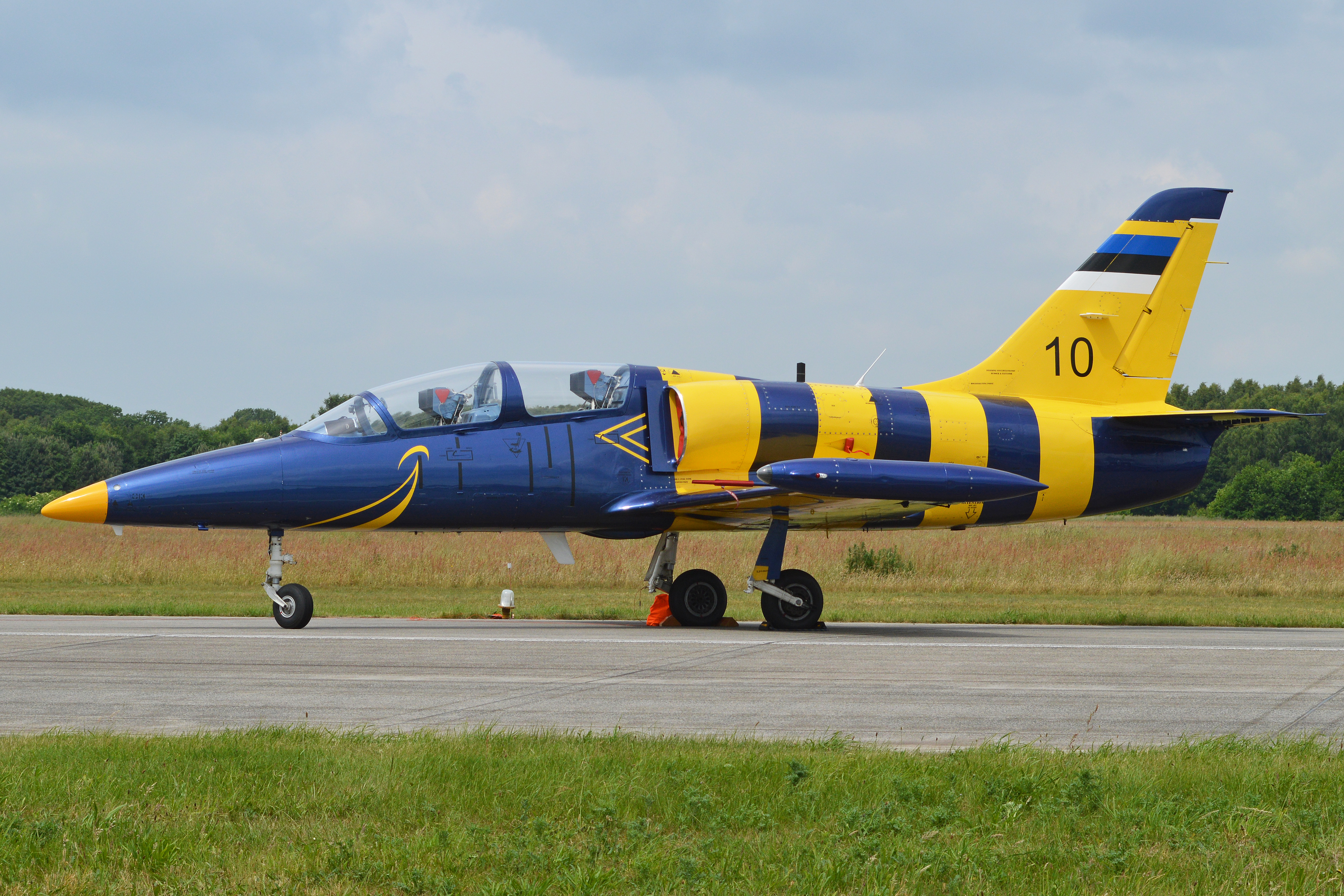 This Albatross represents entire jet element of the Estonian Air Force, and was a very welcome addition to the show. c/n 934669. Seen parked on the main flightline / static line at the '100th Anniversary of Dutch military aviation'. Volkel Airbase, Netherlands. 14-6-2013